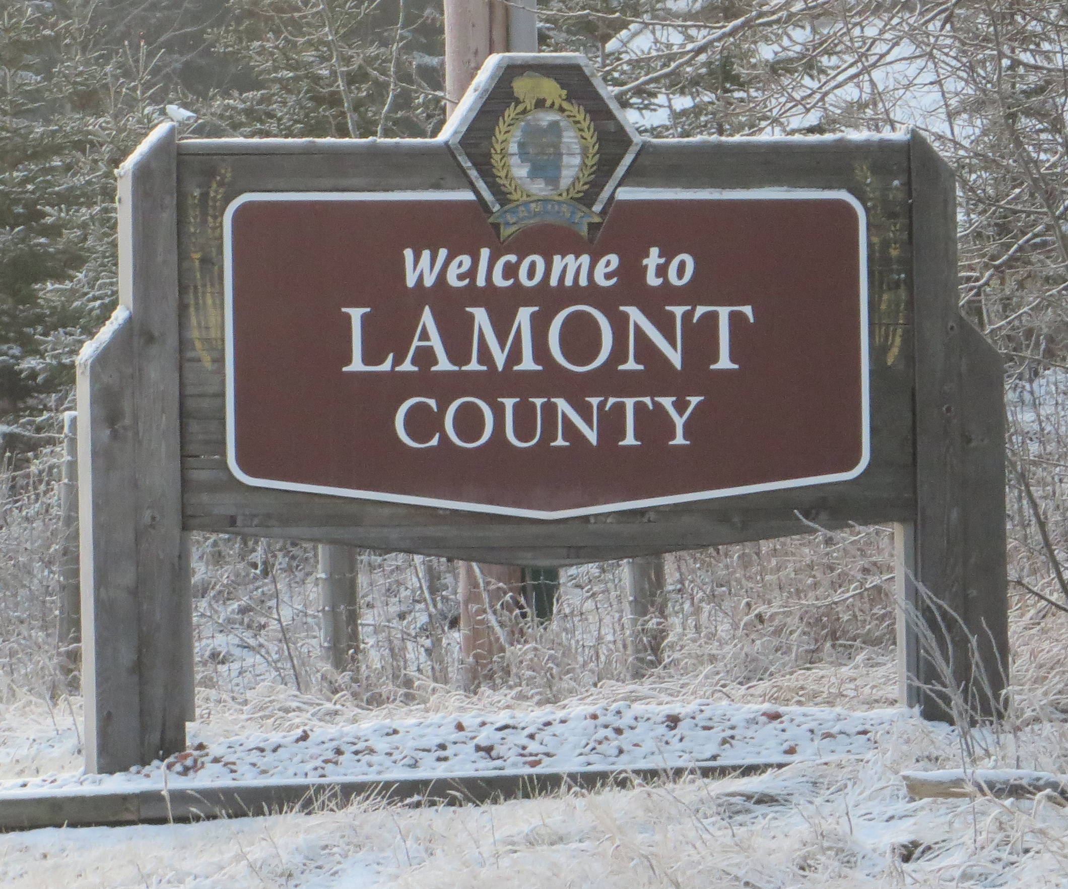 A sign welcoming motorists to Lamont County, Alberta, Canada.